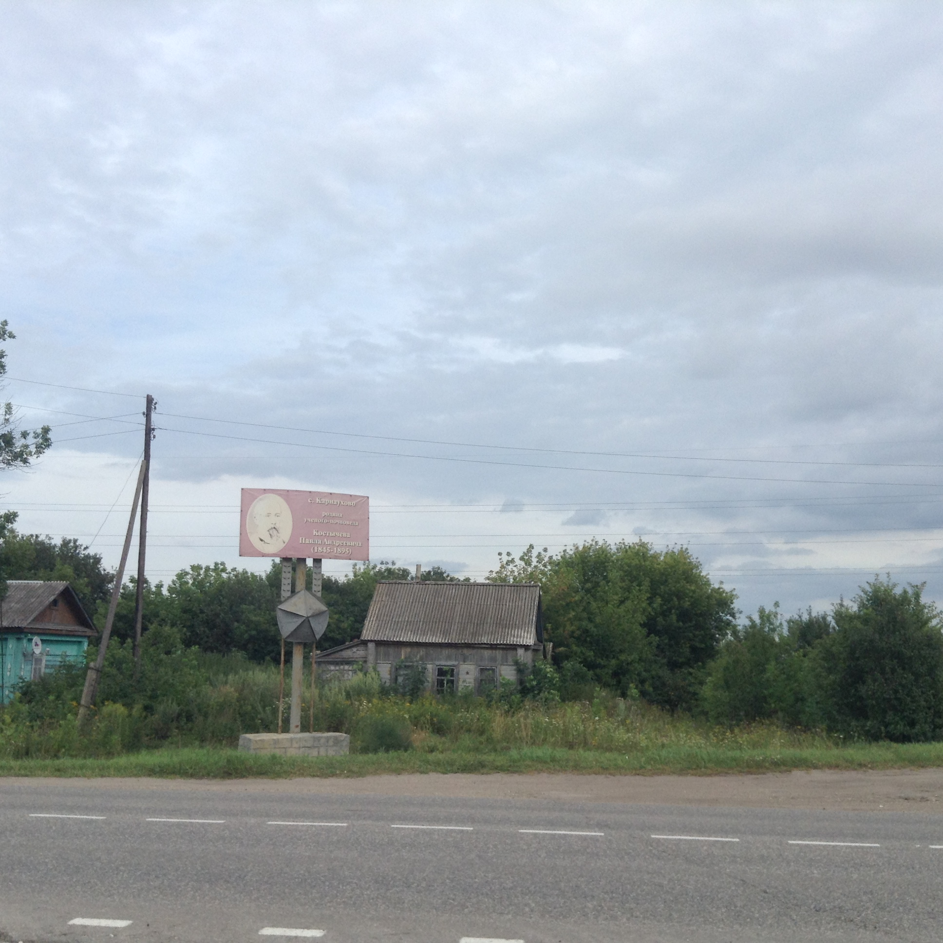 Monument to Russian scientist Peter Kostychev in Karnaukhovo, Ryazan Oblast